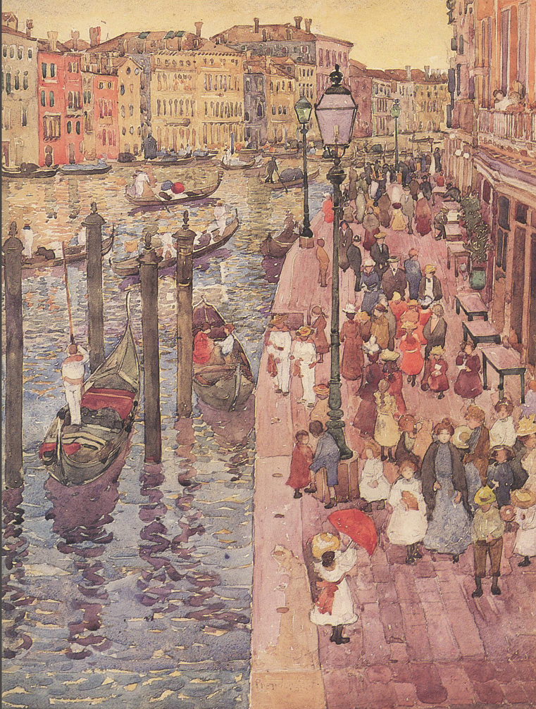 Painting The Grand Canal, Venice